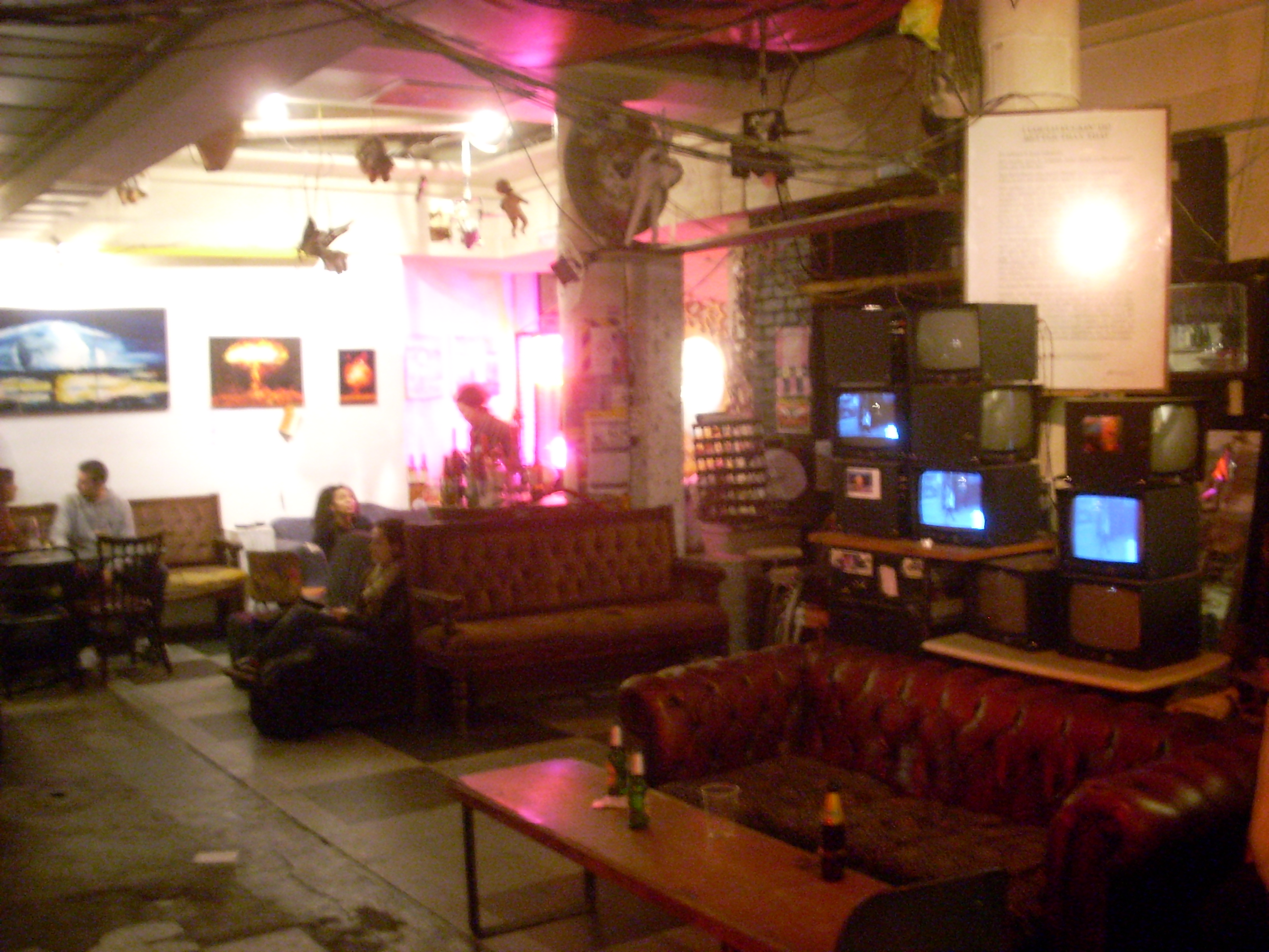 Foundry (bar) Shoreditch 2009 interior